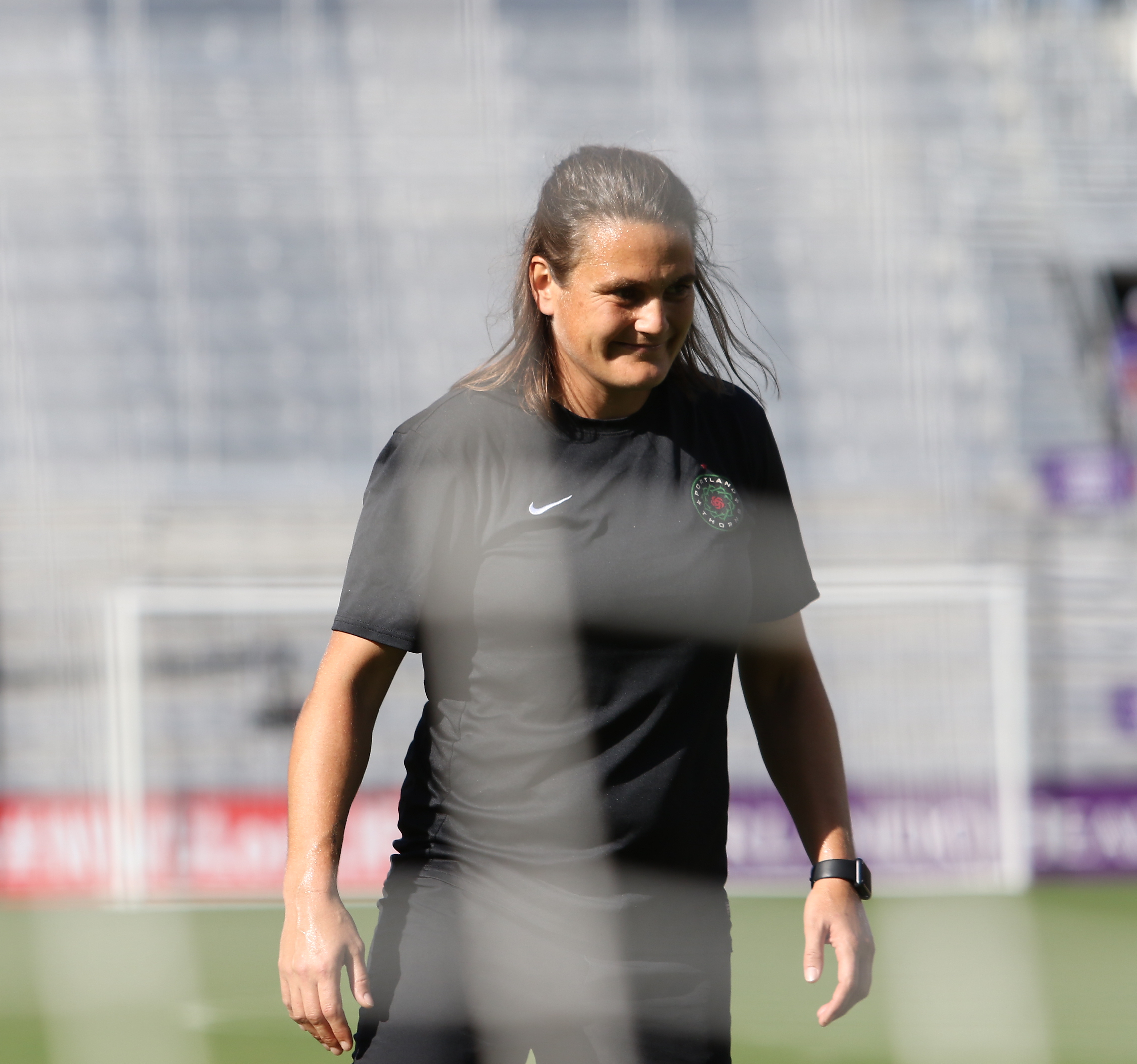 Nadine Angerer coaching the Portland Thorns FC goalkeepers in 2017